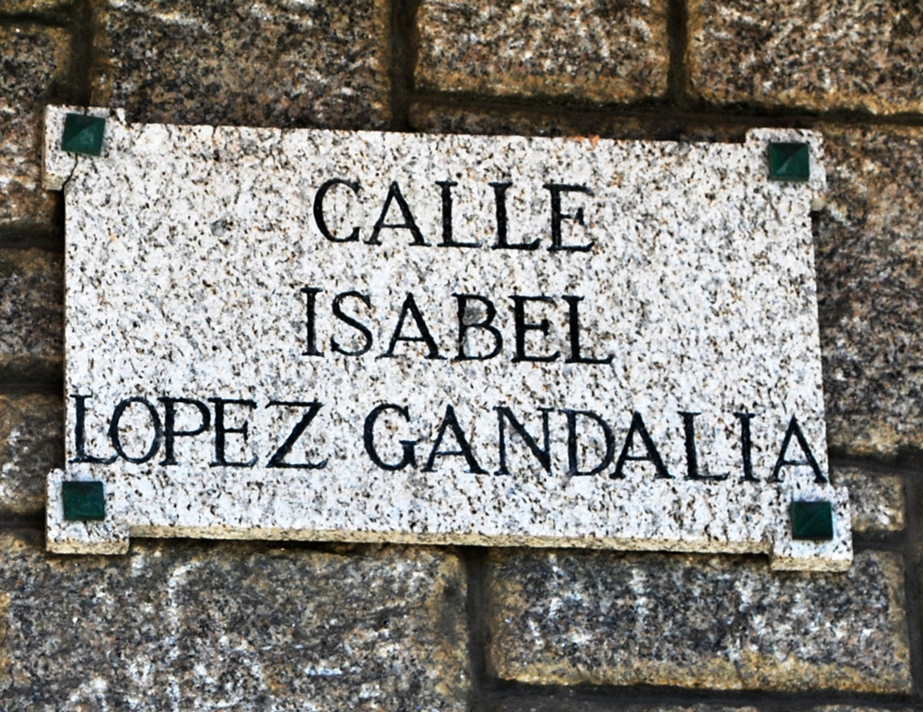 Rua Isabel Zendal Gómez in Casa da A CoruñaGalego: Praca da rúa adicada a Isabel Zendal Gómez na Coruña